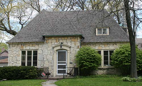 Rufus Arndt House, Whitefish Bay, National Registered Historic Place.